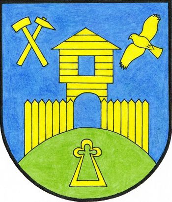 Municipal coat of arms of Velke Svatonovice, Trutnov District, Czech Republic.